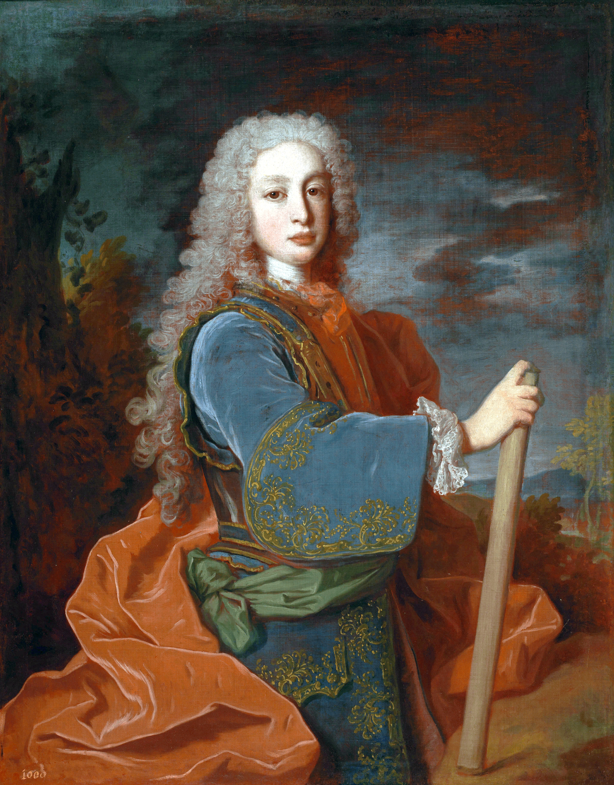 Retrato de D. José, Príncipe do Brasil e futuro rei de Portugal